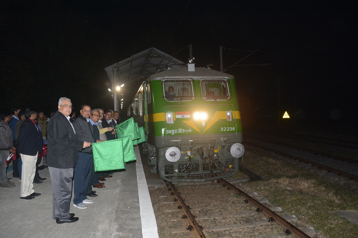 Updrading WAG-9HC Locomotive 6000HP to 9000HP (7000KW), max speed 100 KMPH